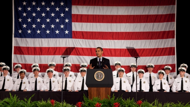 President Obama in Ohio for the Graduation of the Columbus Police Division’s 114th Class, boasting that the recovery act did bring some good news.